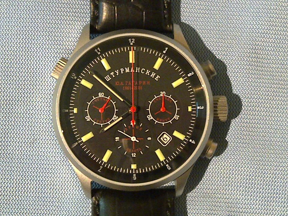 Sturmanskie Juri Gagarin 40 Jahre Erster Mensch im Weltall Erinnerungsuhr